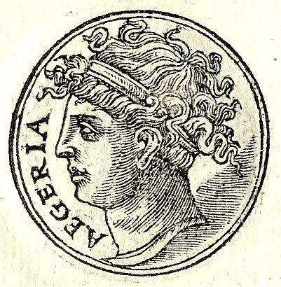 Egeria was a water nymph in Roman mythology. She was most famously the second wife and counselor of the second king of Rome, Numa Pompilius.